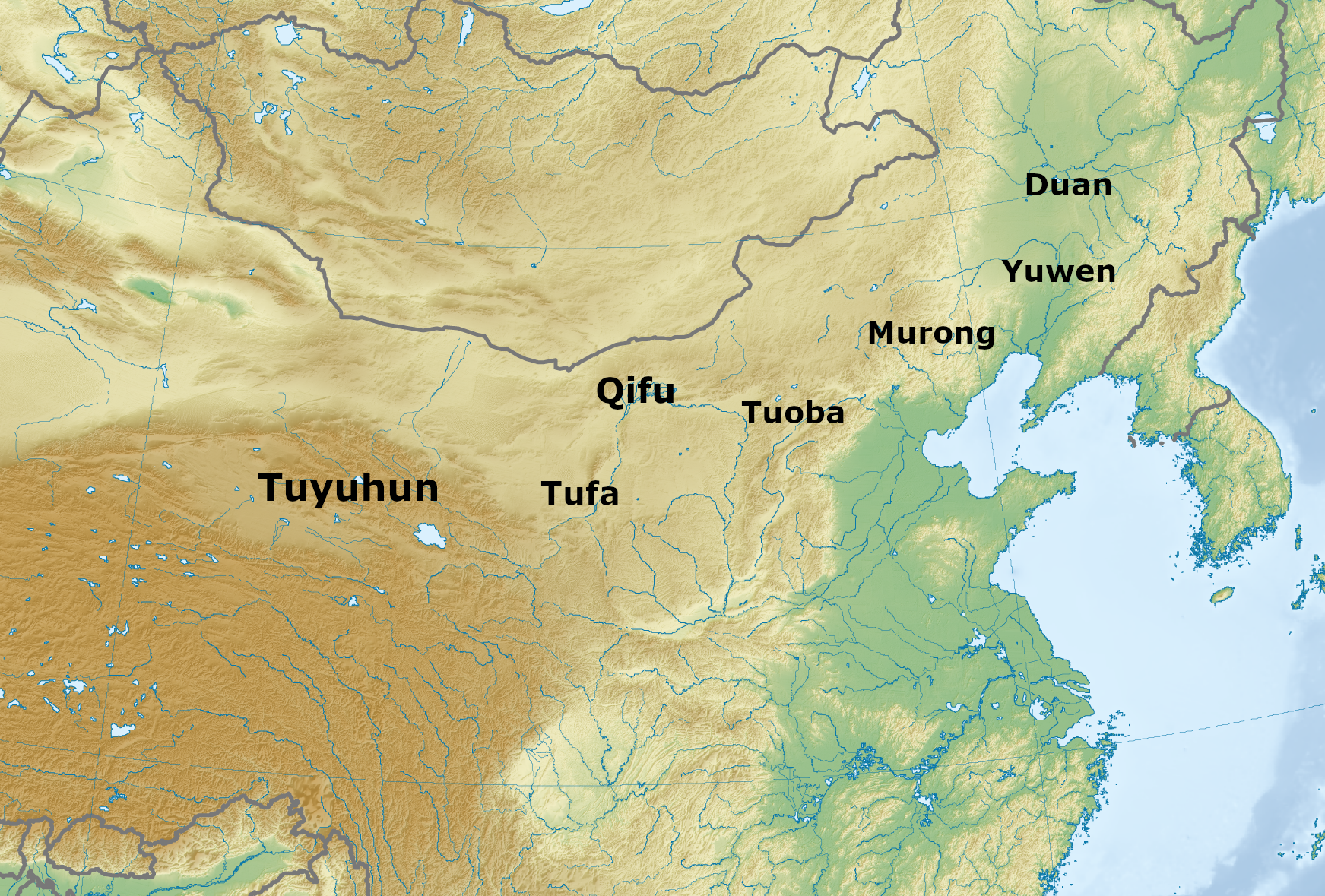 Distribution of major Xianbei peoples by the end of the Three Kingdoms period (220-280 AD).